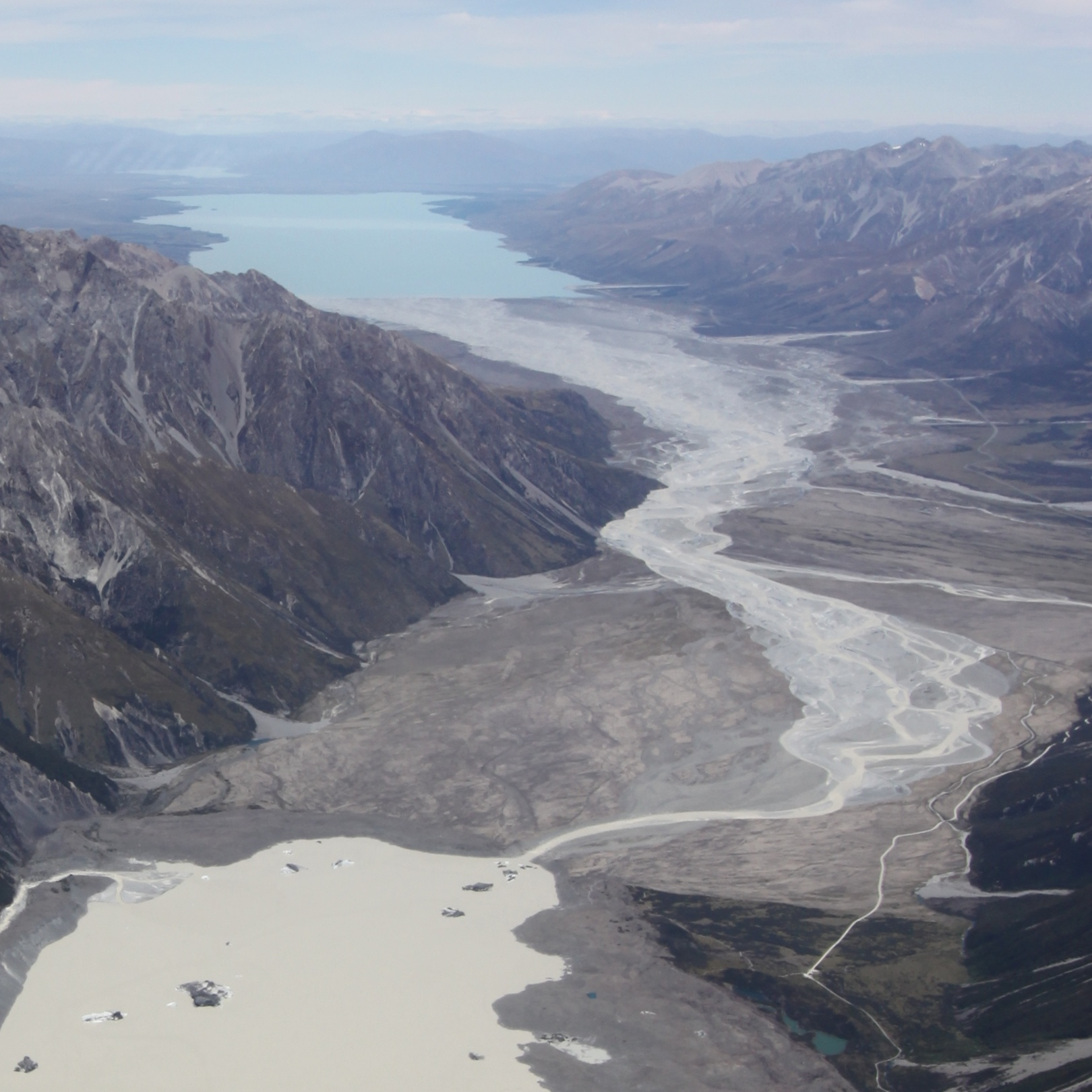 Tasman River between Tasman Lake (proglacial) and Lake Pukaki in the distance - (cropped to focus on Tasman River & slightly rotated to make horizon level - from File:Tasman River.JPG)